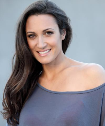 photo of Sitara Hewitt